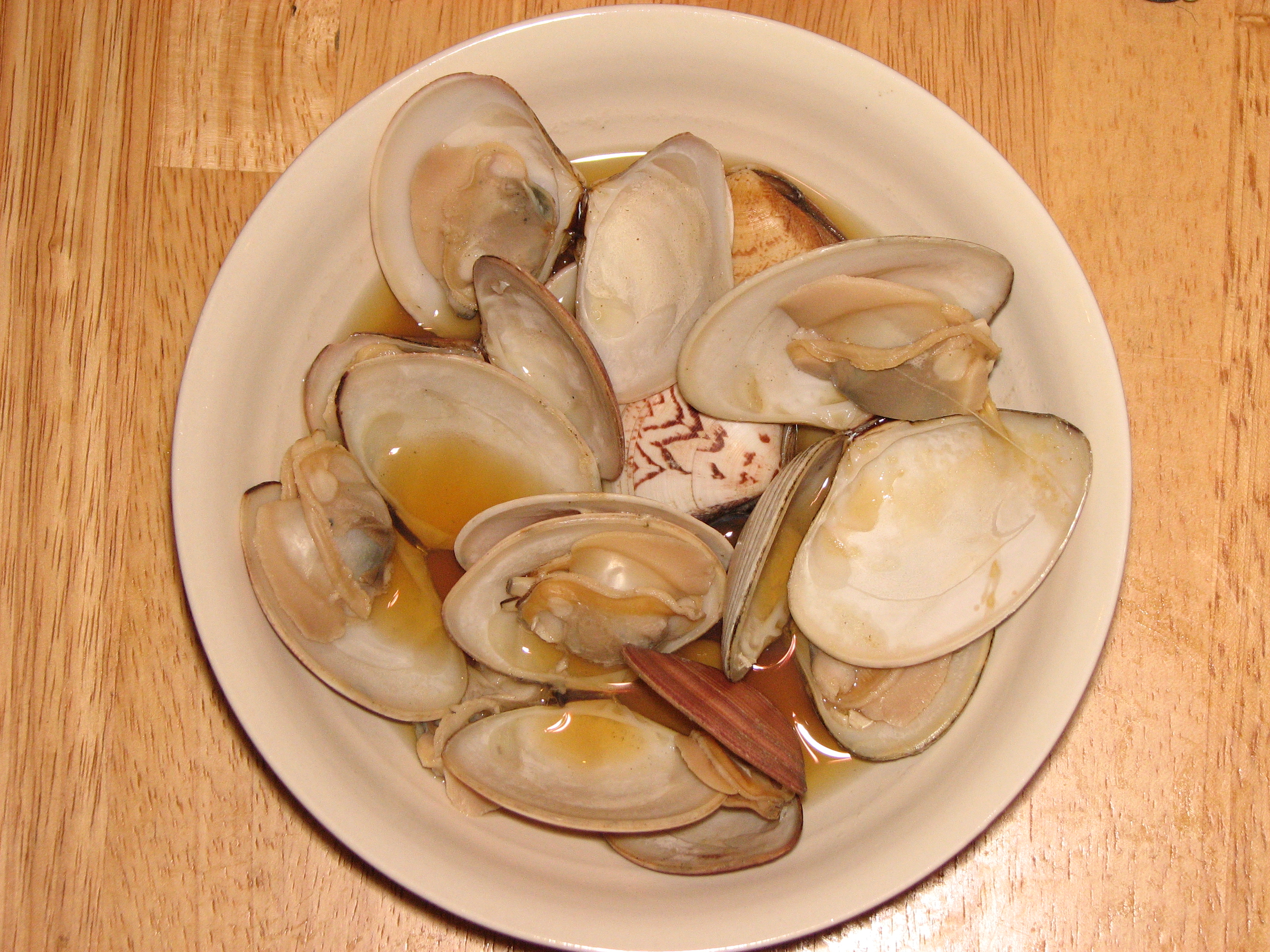 Sake-steamed Gomphina melanegis